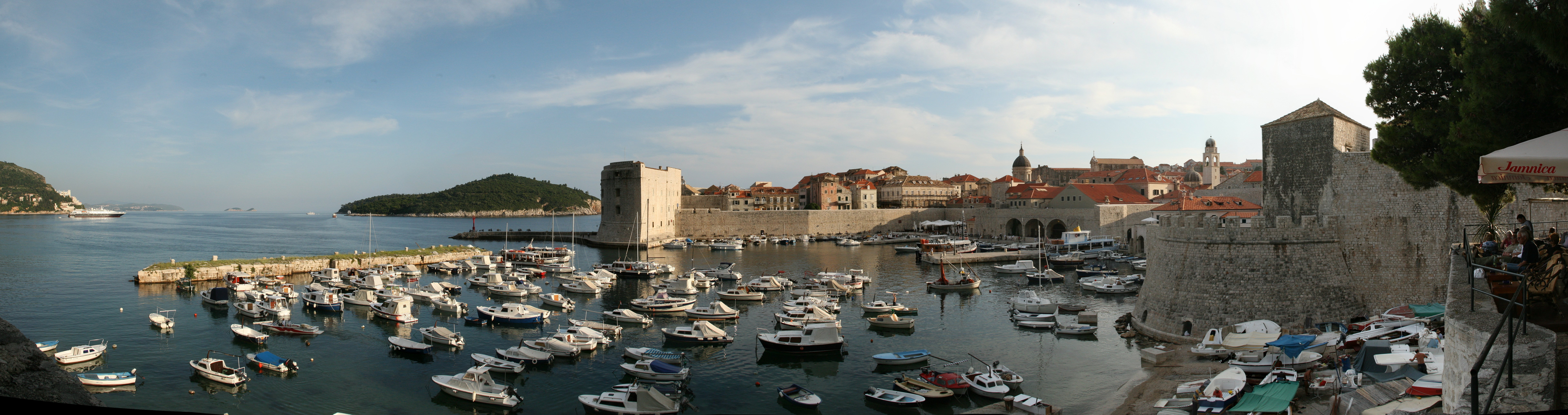 A Panoramic from Revelin, Dubrovnik.